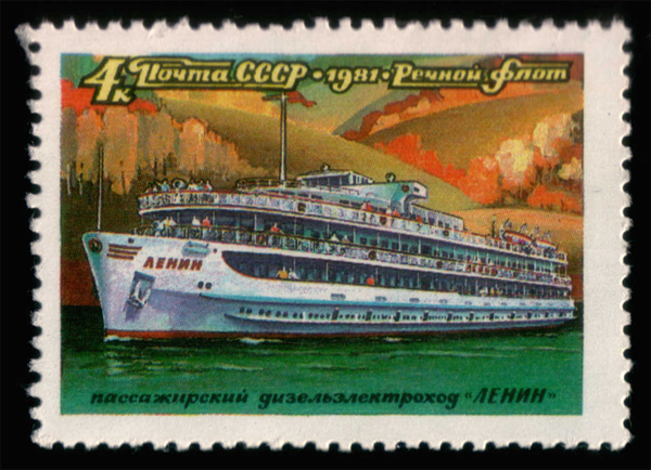 USSR stamp, 1981, 4 kopecks. River Ships series. Lenin passenger steamer ship. CPA No. 5206.